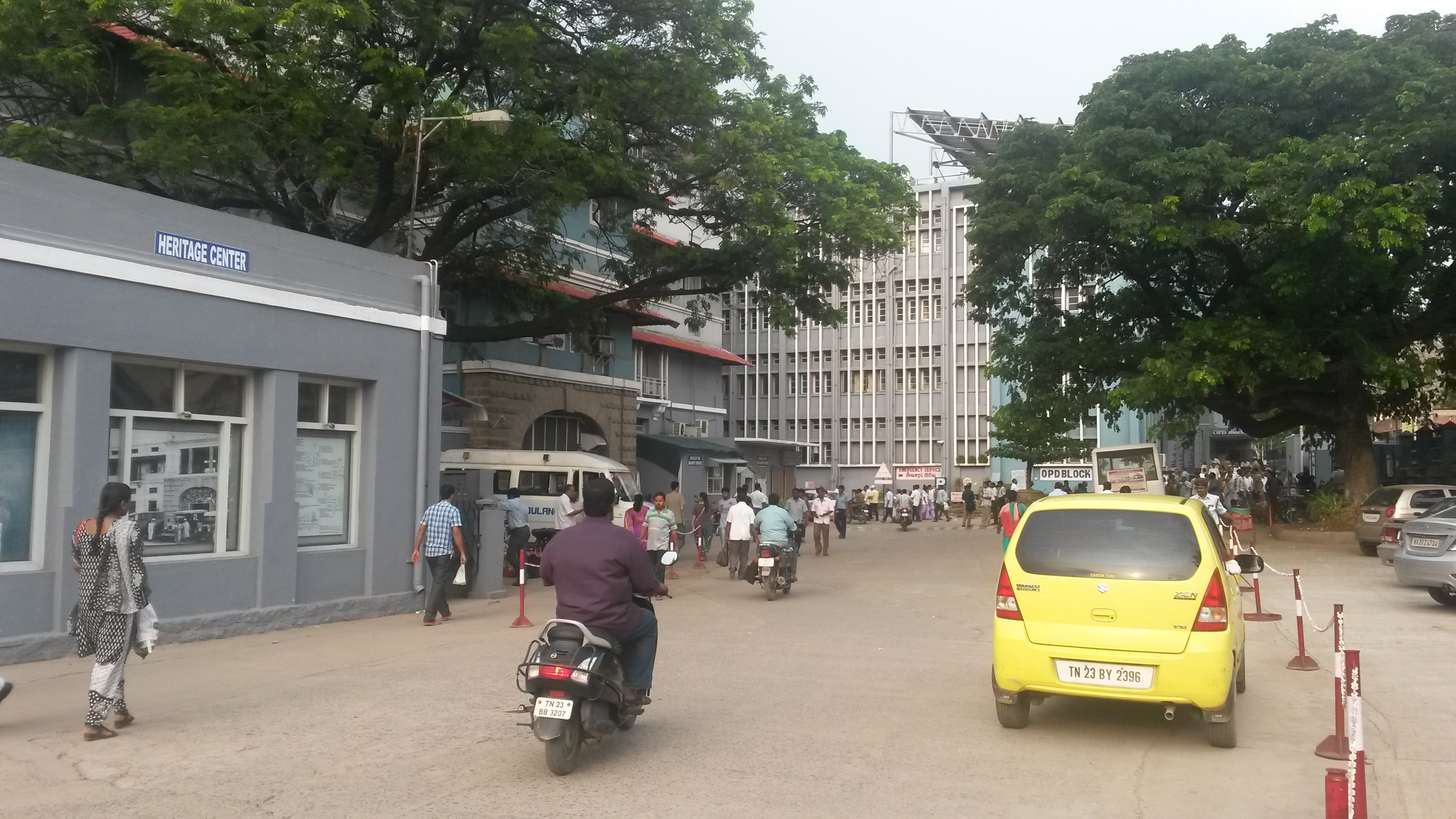 CMC Vellore images